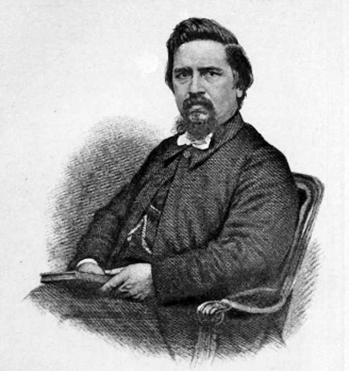 John Griffith; From:Griffith John: The Story of Fifty Years In China by R. Wardlaw Thompson; London; Religious Tract Society; 1906